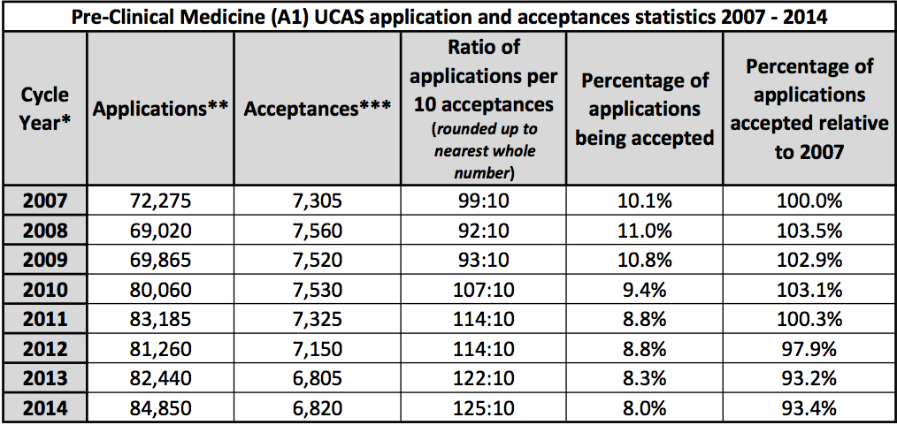 Pre-Clinical Medicine (A1) UCAS application and acceptances statistics, 2007 - 2014. See UCAS source links for Cycle Year*, Application** and Acceptance*** definitions.[1][2] *Cycle Year is defined as: The cycle in which the application was processed. I.e. Cycle Year 2007 means the application was submitted in the academic year starting September 2007, for University entry in September 2008 onwards. **Application is defined as: A choice to a course in higher education through the UCAS main scheme. Each applicant can make up to five choices, which was reduced from six in 2008. The number of applications does not include choices made through the following acceptance routes: Clearing, Extra, Adjustment and RPAs. And A1 applicants are limited to four choices instead of the usual five. ***Acceptances is defined as: As an applicant who has been placed for entry into higher education. A1 is the Subject Group identifier for all UCAS 'Pre-Clinical Medicine' courses. This means any UCAS course that starts A1 followed by two additional numbers (A1XX), i.e. A100, A101, A102 etc., fall into this category; where A100 typically represents the 5 year undergraduate entry course, A101 typically represents the 4 year graduate entry course, and A102 typically represents the 6 year widening access course etc.